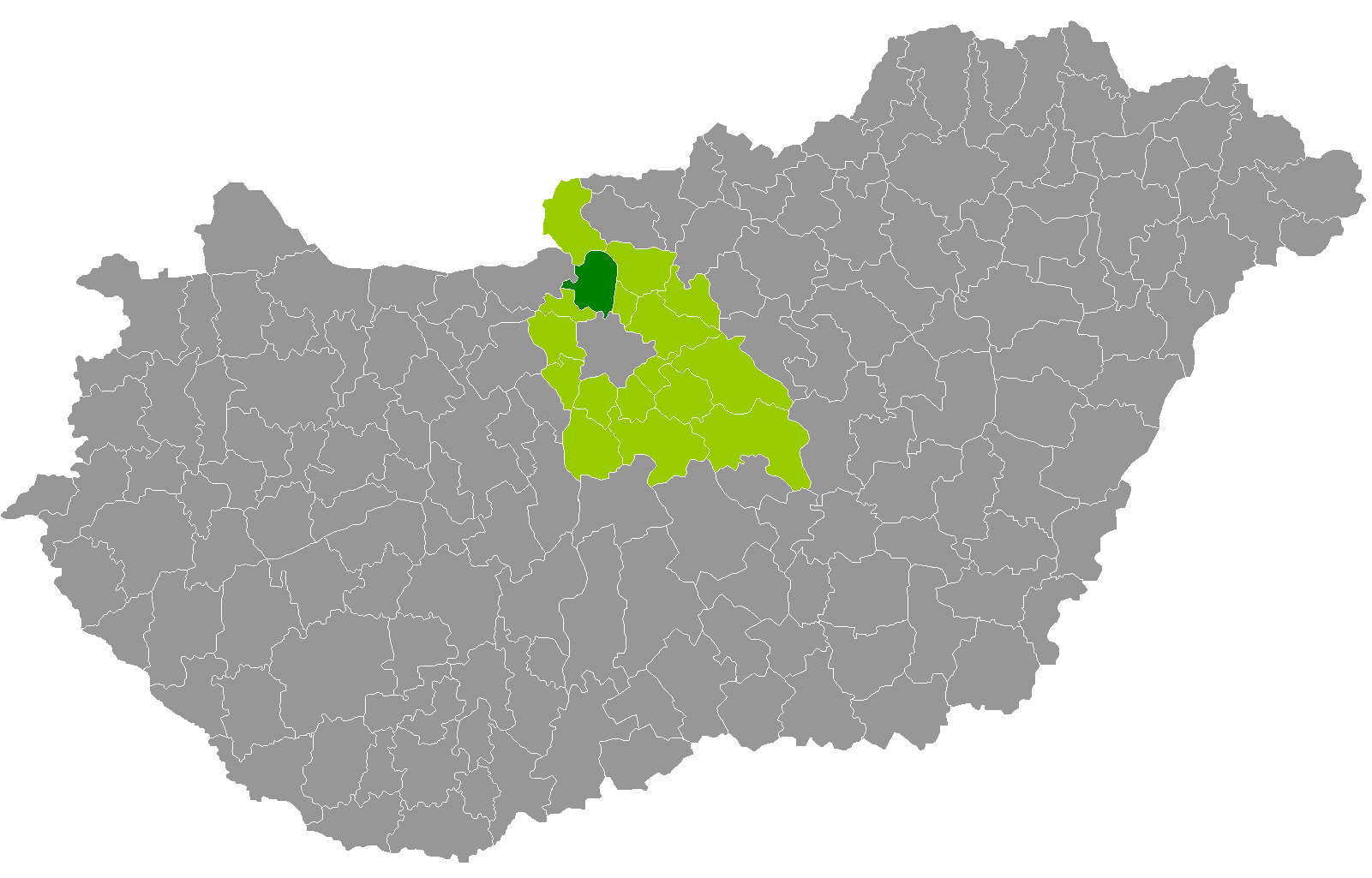 Location of Szentendre District, Pest, Hungary